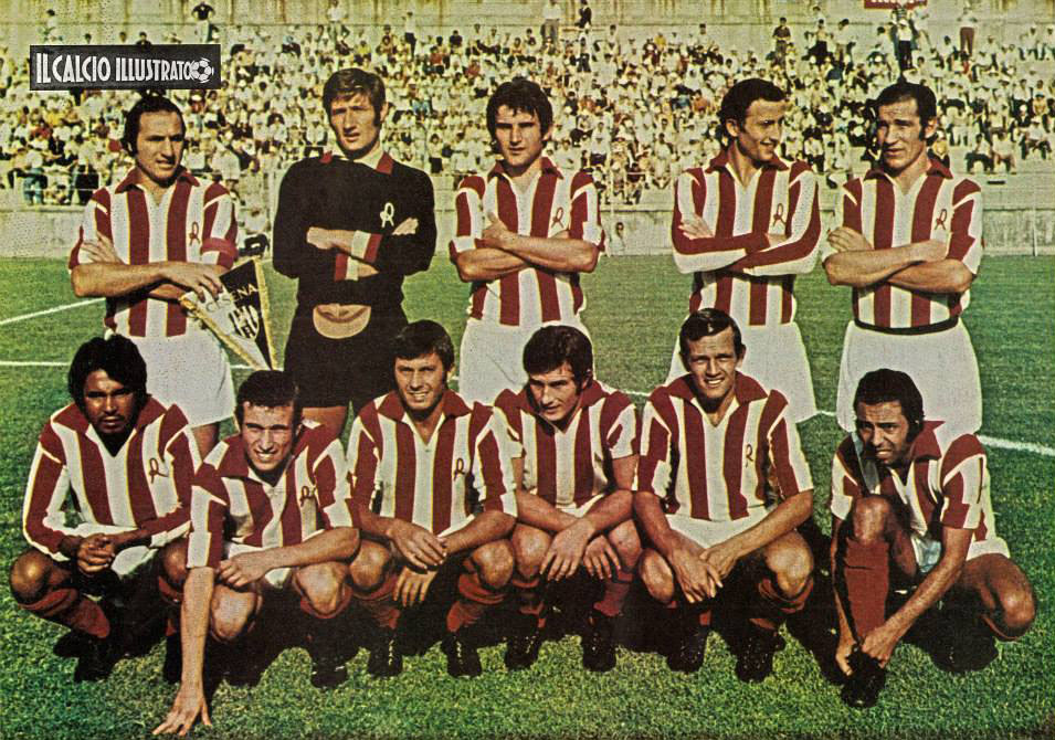 Vicenza (Italy), "Romeo Menti" Stadium, August 29, 1971. The line-up of L.R. Vicenza took to the picth in the home victory versus A.C. Cesena (2-0), Matchday 1 of 1971–72 Coppa Italia group stage. From left to right, standing: M. Maraschi (captain), A. Bardin, D. Fontana, M. Calosi, S. Carantini; crouched: Sidney Colônia Cunha "Chinesinho", G. Damiani, G. Volpato, P. Stanzial, C. Poli, N. Ciccolo.